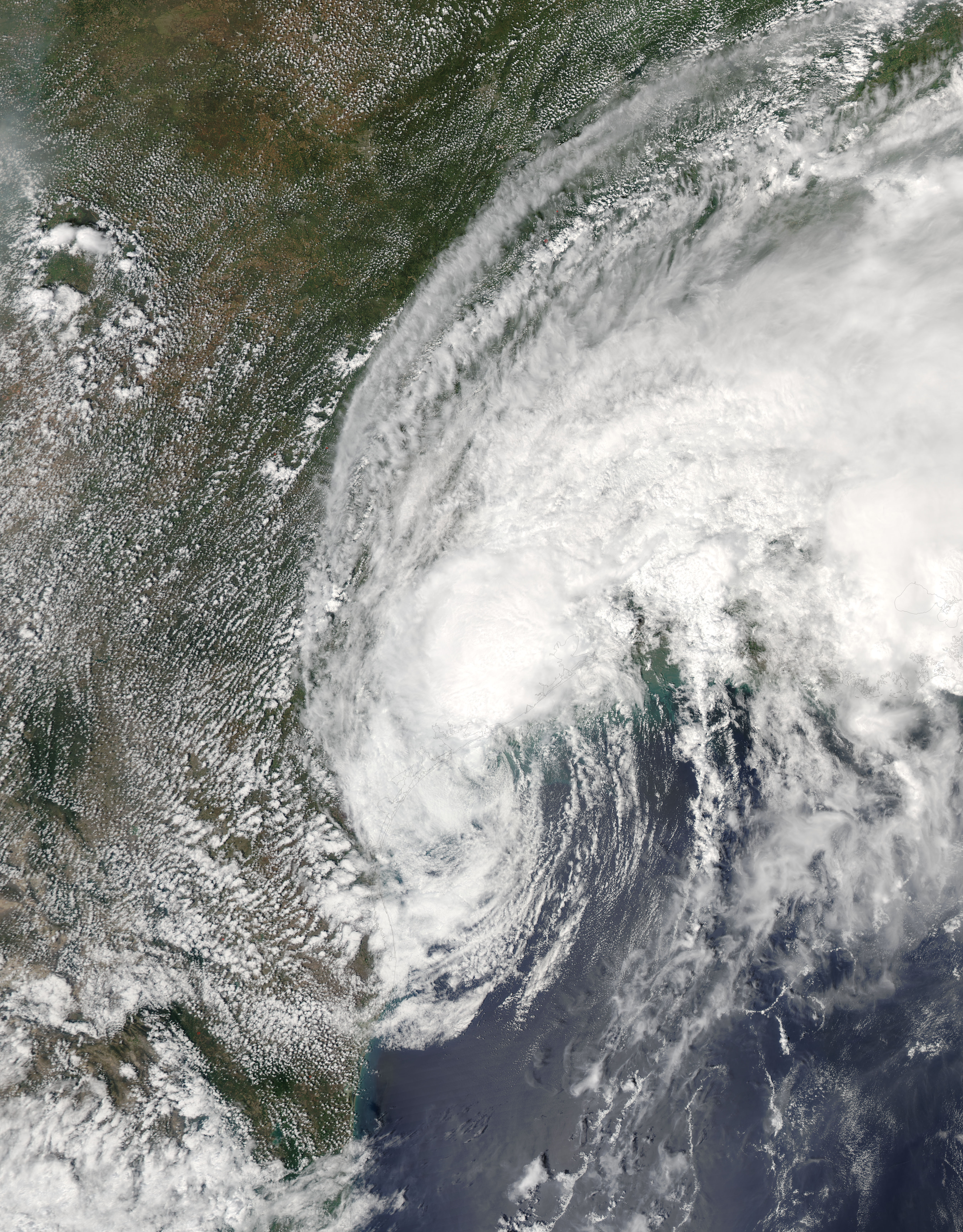 Tropical Storm Harvey (09L) over Texas